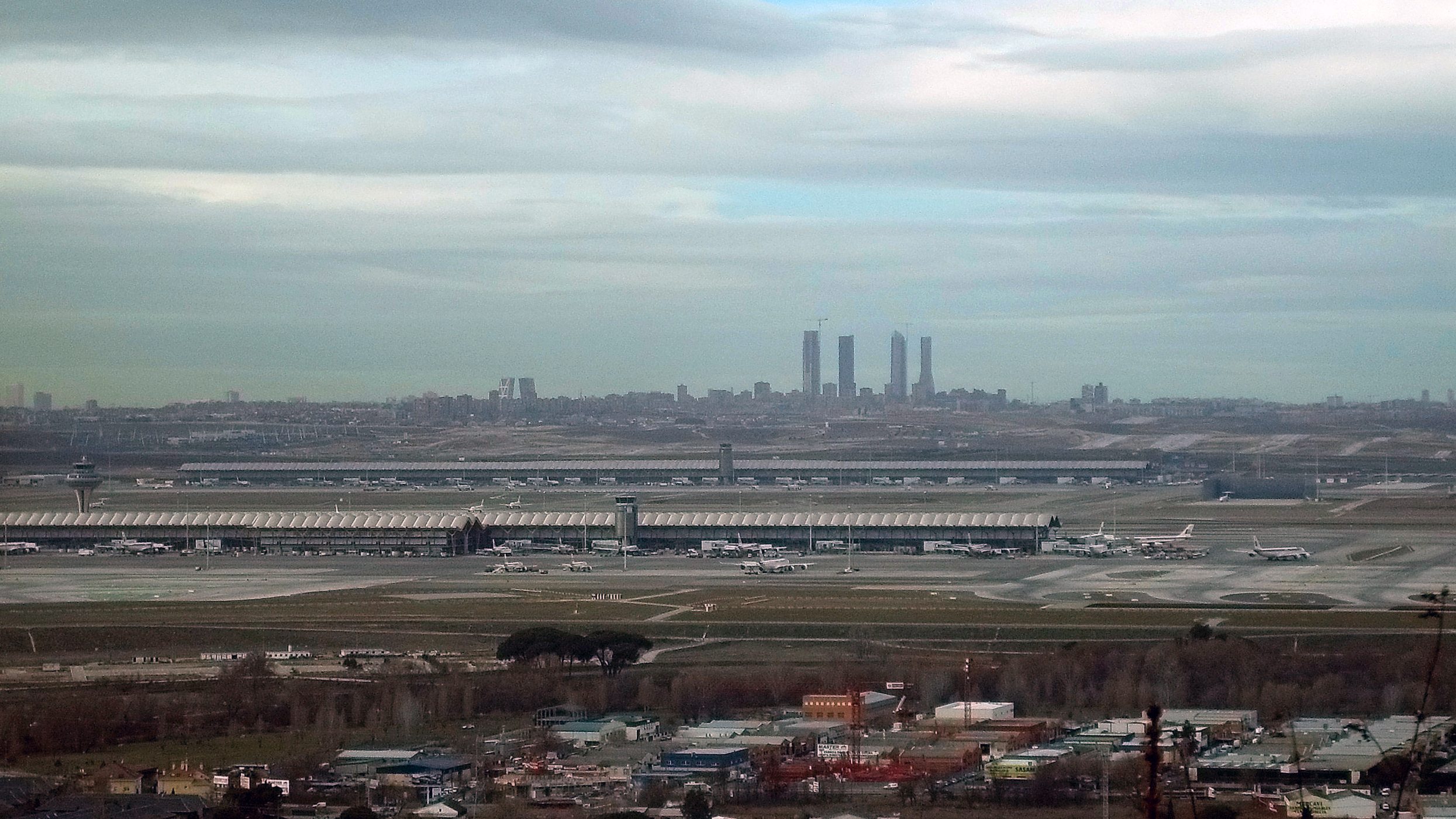 Panoromic view of Madrid from Paracuellos del Jarama.